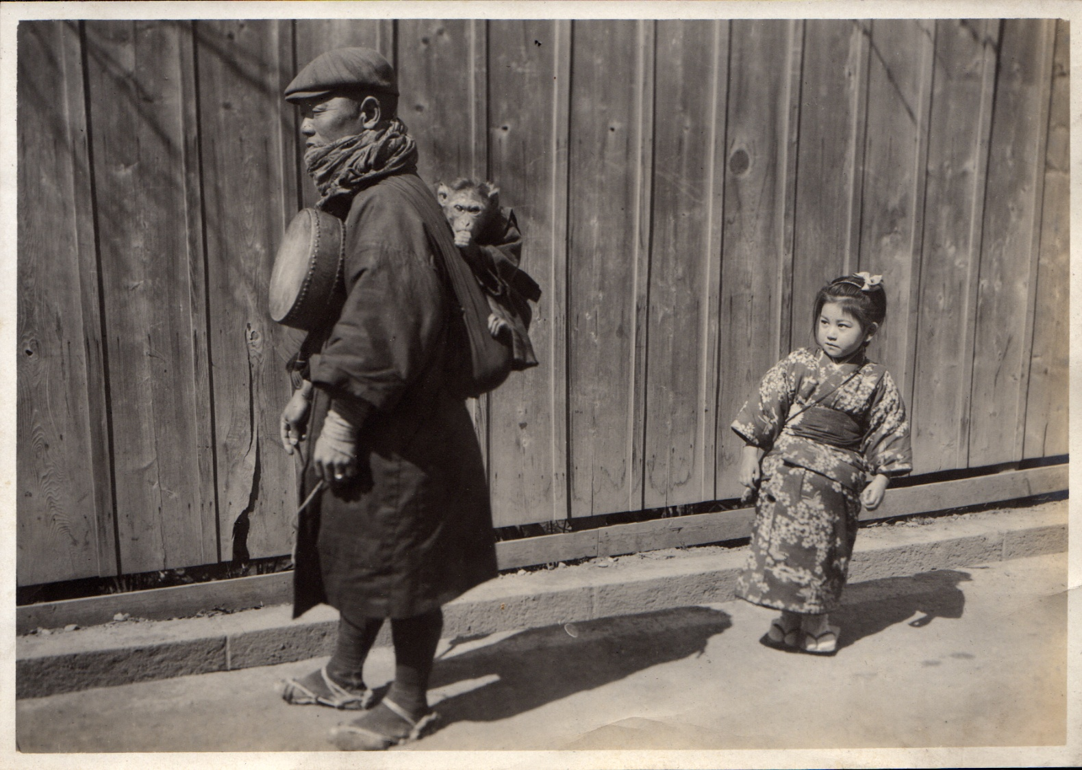 My spouse's uncle Elstner Hilton took this photo in Japan between 1914 and 1918. The look on the little girl's face is priceless!